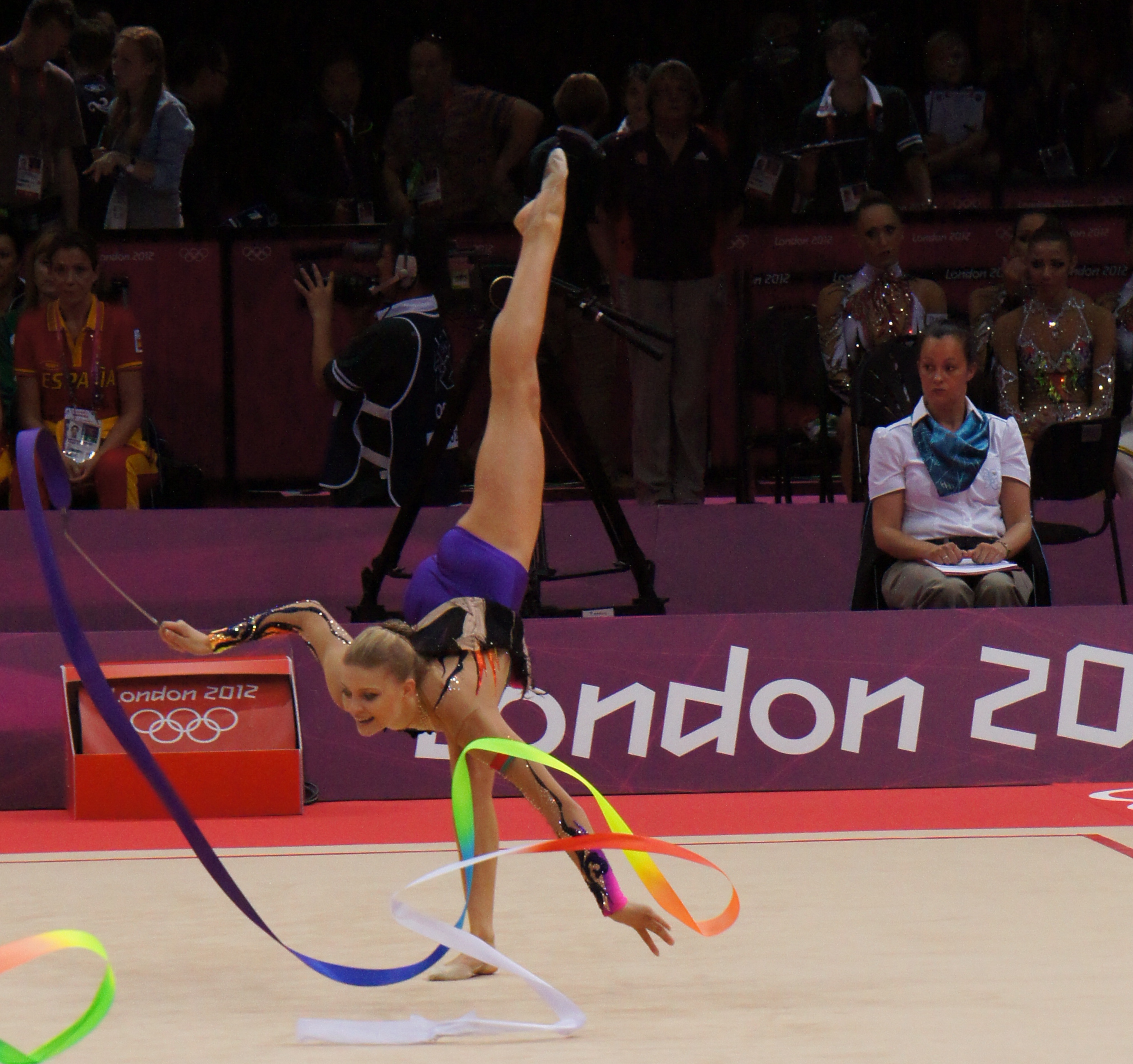 Belarusian rhythmic gymnastics team 2012 at the Summer Olympics